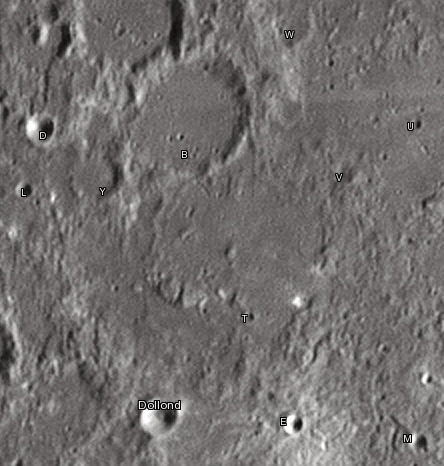 Dollond lunar crater as seen from Earth with satellite craters labeled